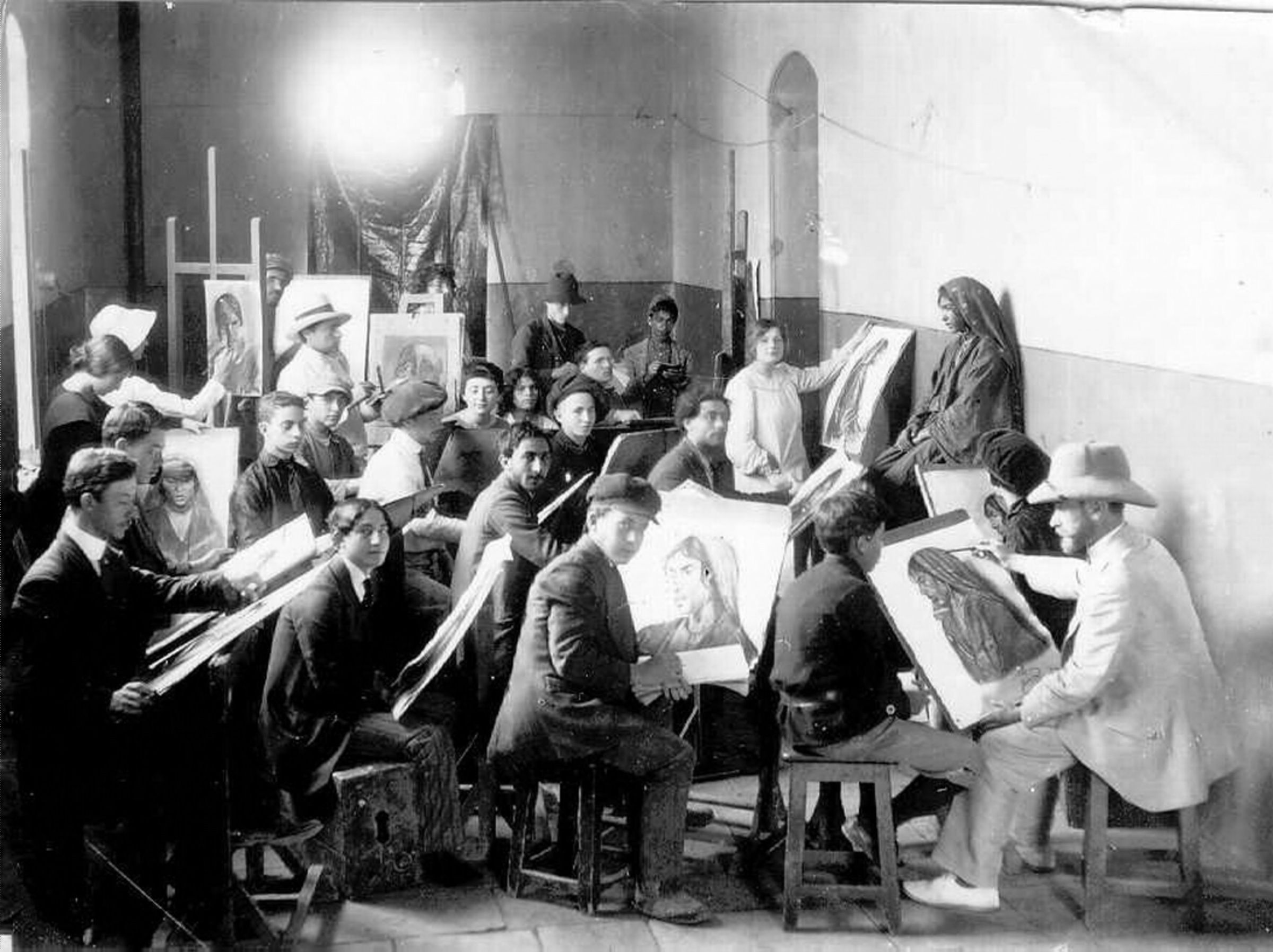 Bezalel, the drawing department under the direction of painter Abel Pann